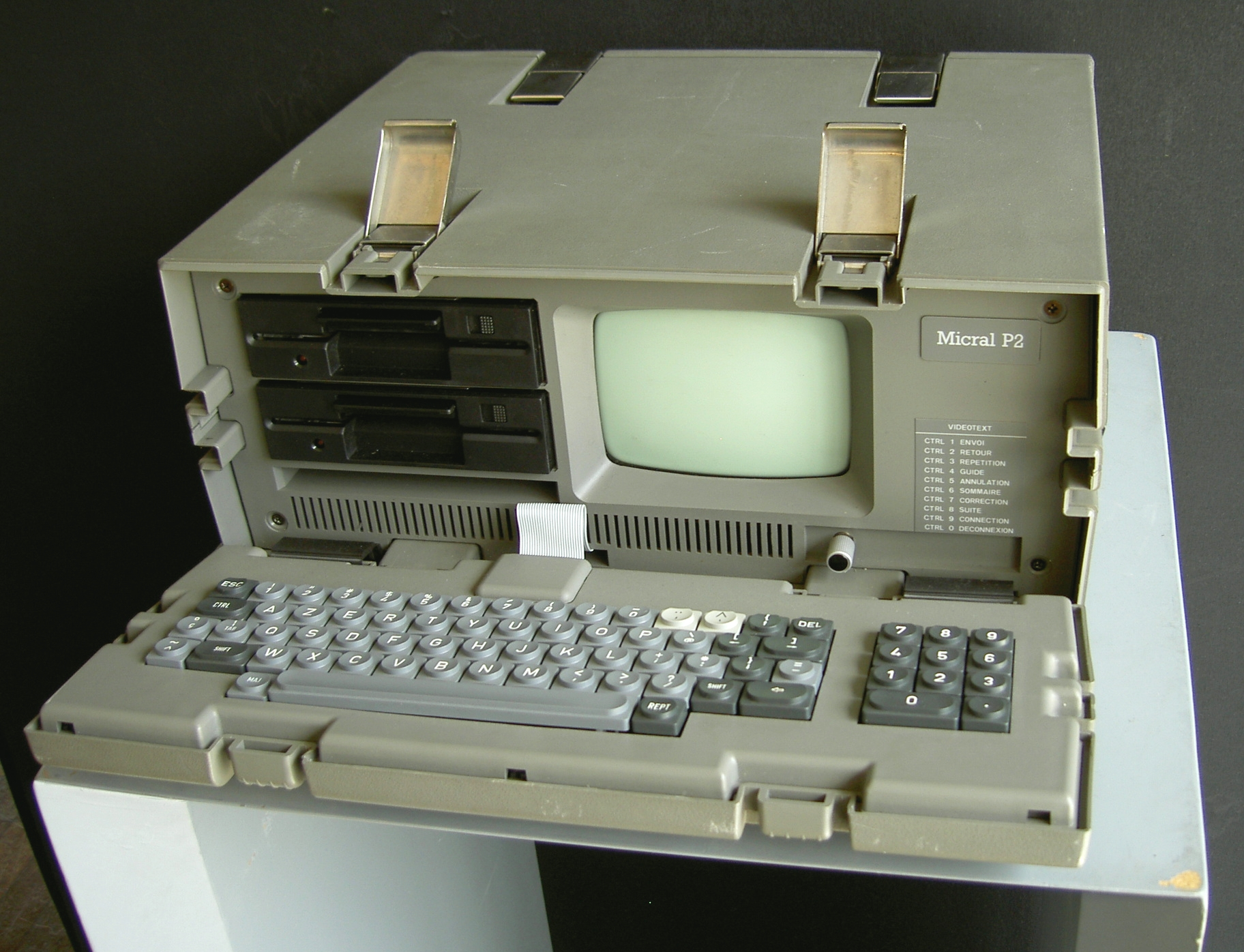 Portable computer "Micral P2" (Bull-Massy, 1981, 13kg). Processor : Zilog Z80 @ 5MHz, RAM : 64Ko, Screen : 6", Disks 5"1/4